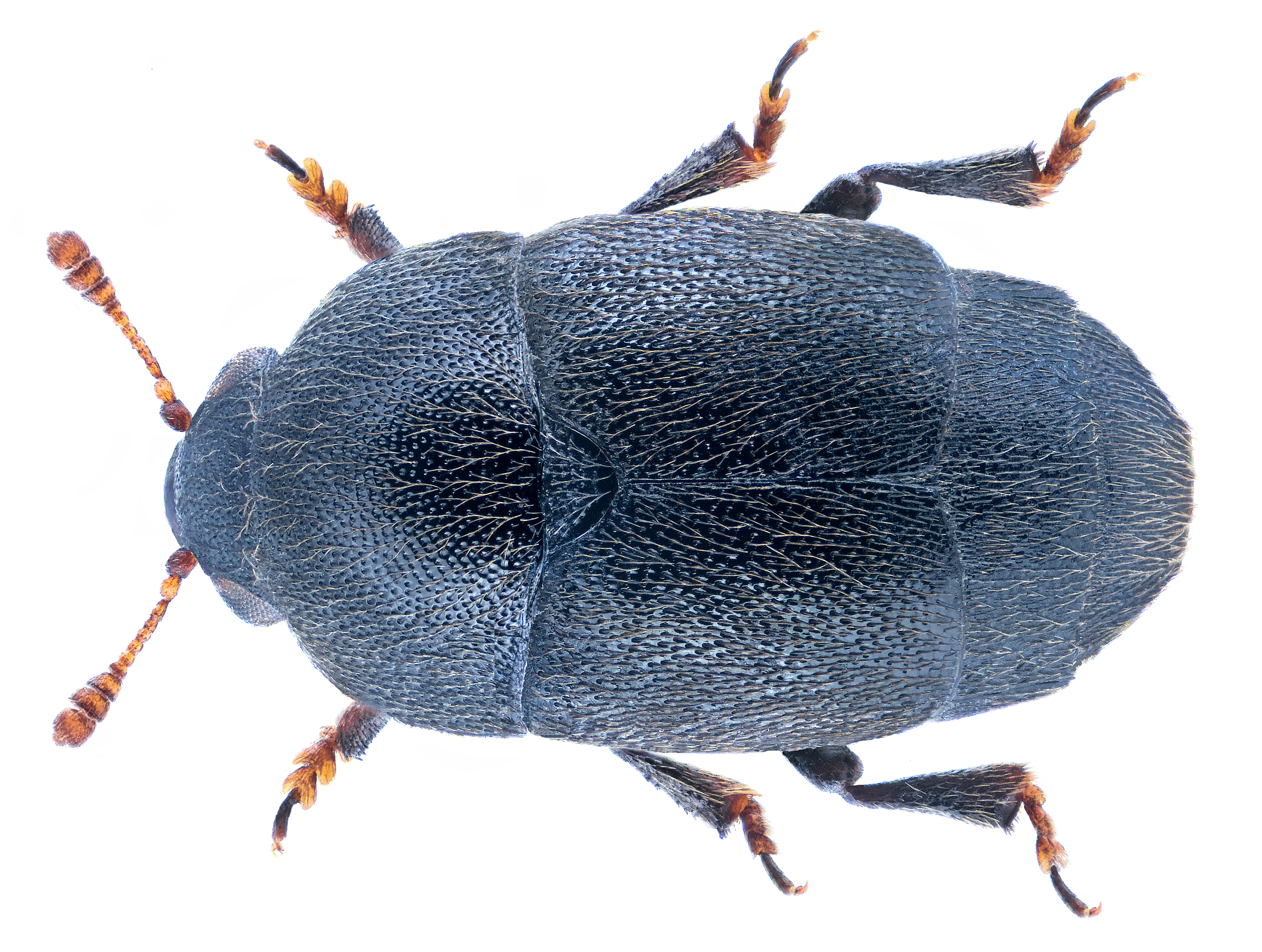 Family: Kateretidae (Nitidulidae) Size: 2.5 mm (2.0 to 3.0 mm) Origin: Europe Ecology: Development on Linaria- and Antirrhinum-species Location: Germany, Bavaria, Upper Franconia, Selbitz, Foehrig leg.det. U.Schmidt, 13.VII.1975 Photo: U.Schmidt, 2017